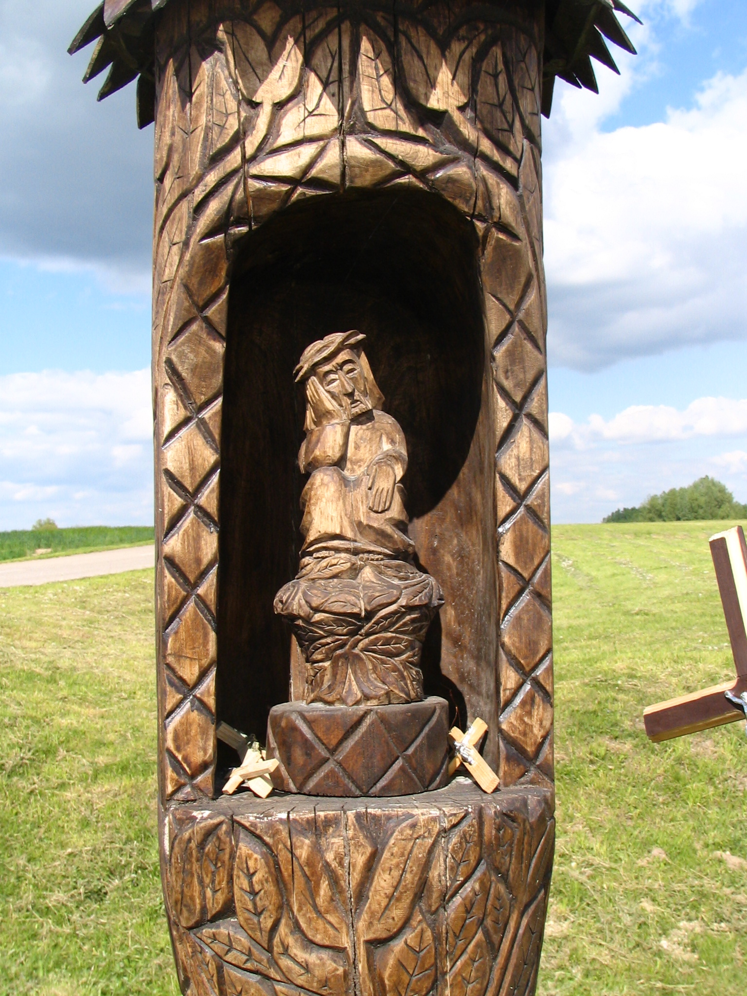 Rūpintojėlis ("sorrowful Jesus"). The image of Jesus seated with his face on his hand is a common one in Lithuania. Apparently it's a result of the combination of pagan tradition (totem poles, expressionist woodwork, etc) and classical Christian symbols. Some say the Lithuanians were never fully converted.